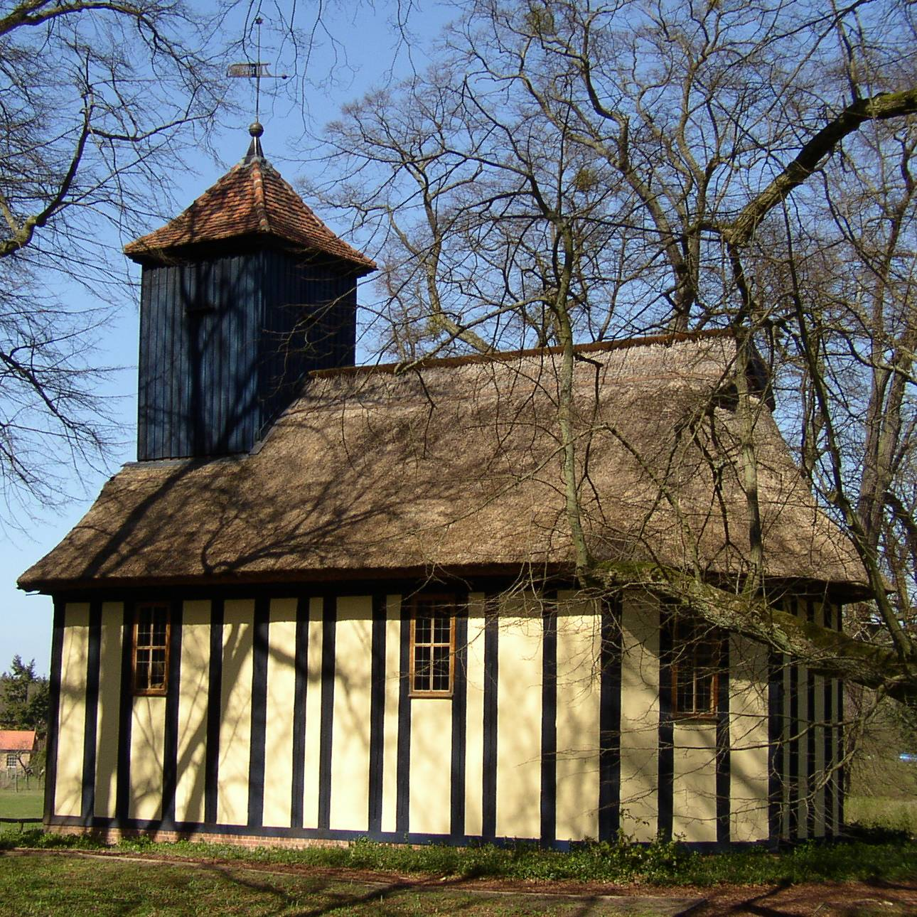 Church in Alt Placht (Templin-Densow) in Brandenburg, Germany